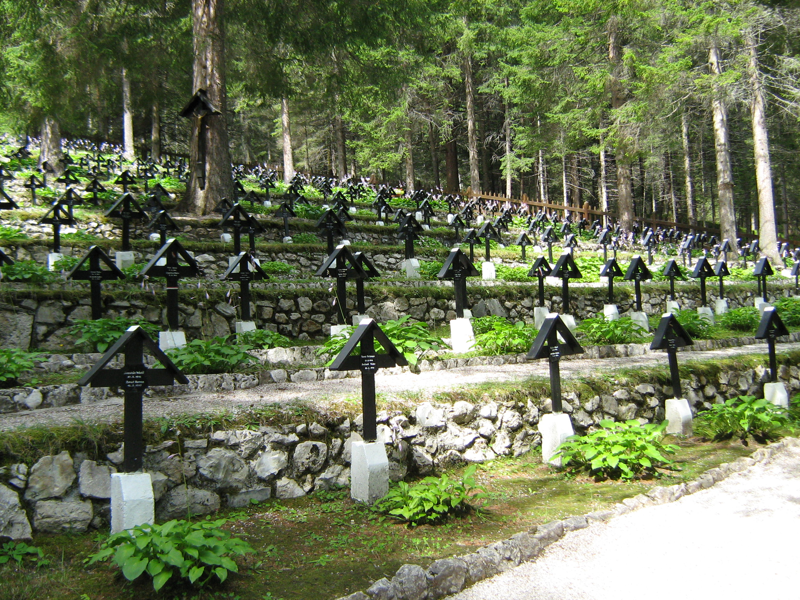 The soldier cemetery Naßwand in the Dolomites in South Tirol, Italy. August 9, 2012.